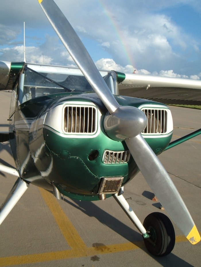 A Luscombe 8F Silvaire, N1432B, in Longmont, CO. Photo by user Willy Logan